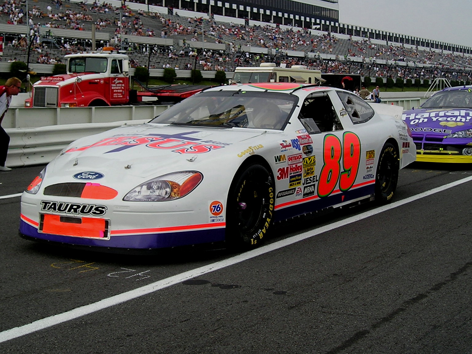 Morgan Shepherd's car in pit lane at Pocono in 2003